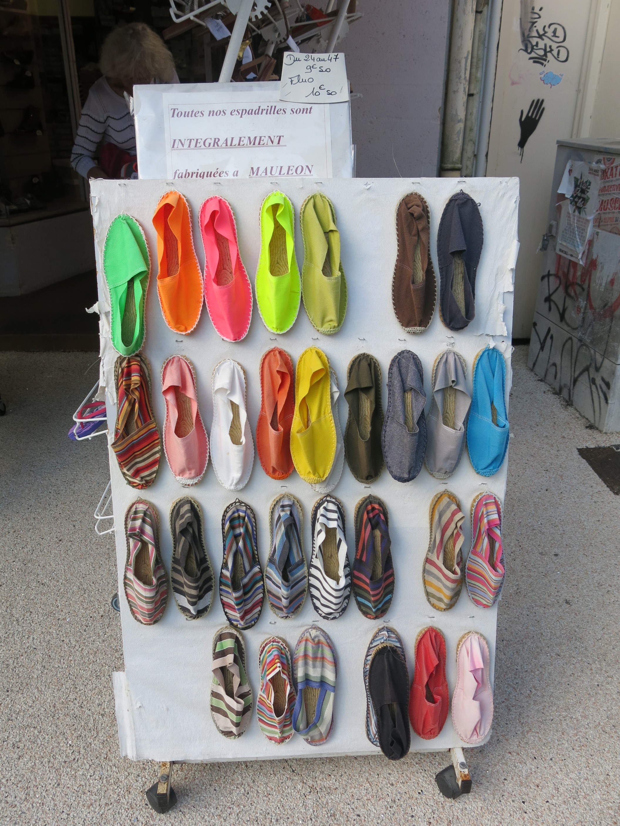 Espadrilles (=sandals) from Mauléon (Pyrénées-Atlantiques, France) for sale in Capbreton (Landes, France).